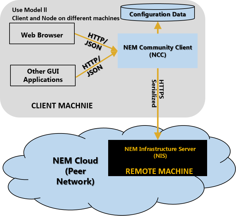 Graphical Desctiption of the NEM Architecture